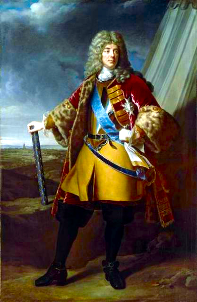 François de Neufville, duc de Villeroi, minister of state, governor of Louis XV, Marshal of France (1644-1730)